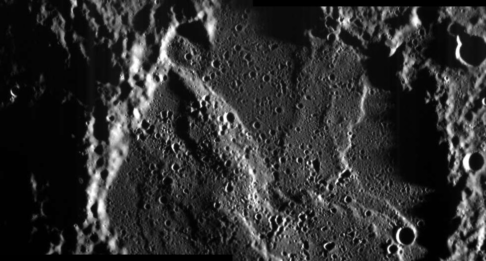 Part of Savage crater on Mercury. MESSENGER Narrow Angle Camera mosaic. North is at top. Width is about 119 km. Statistics for right image are: Emission Angle: 0.5 Incidence Angle: 86.4 Latitude: -8.2 Longitude: 94.0 Phase Angle: 86.7